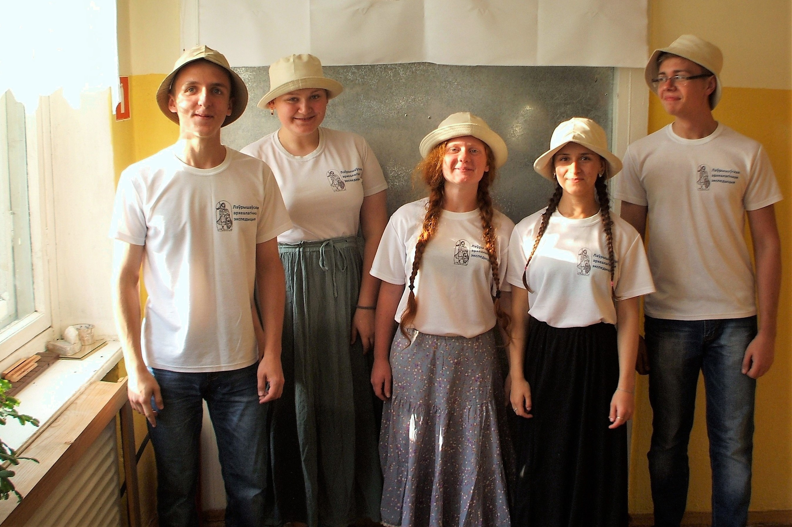 Members of the archaeological expedition. Hrodna Voblasć, Belarus, 2016.